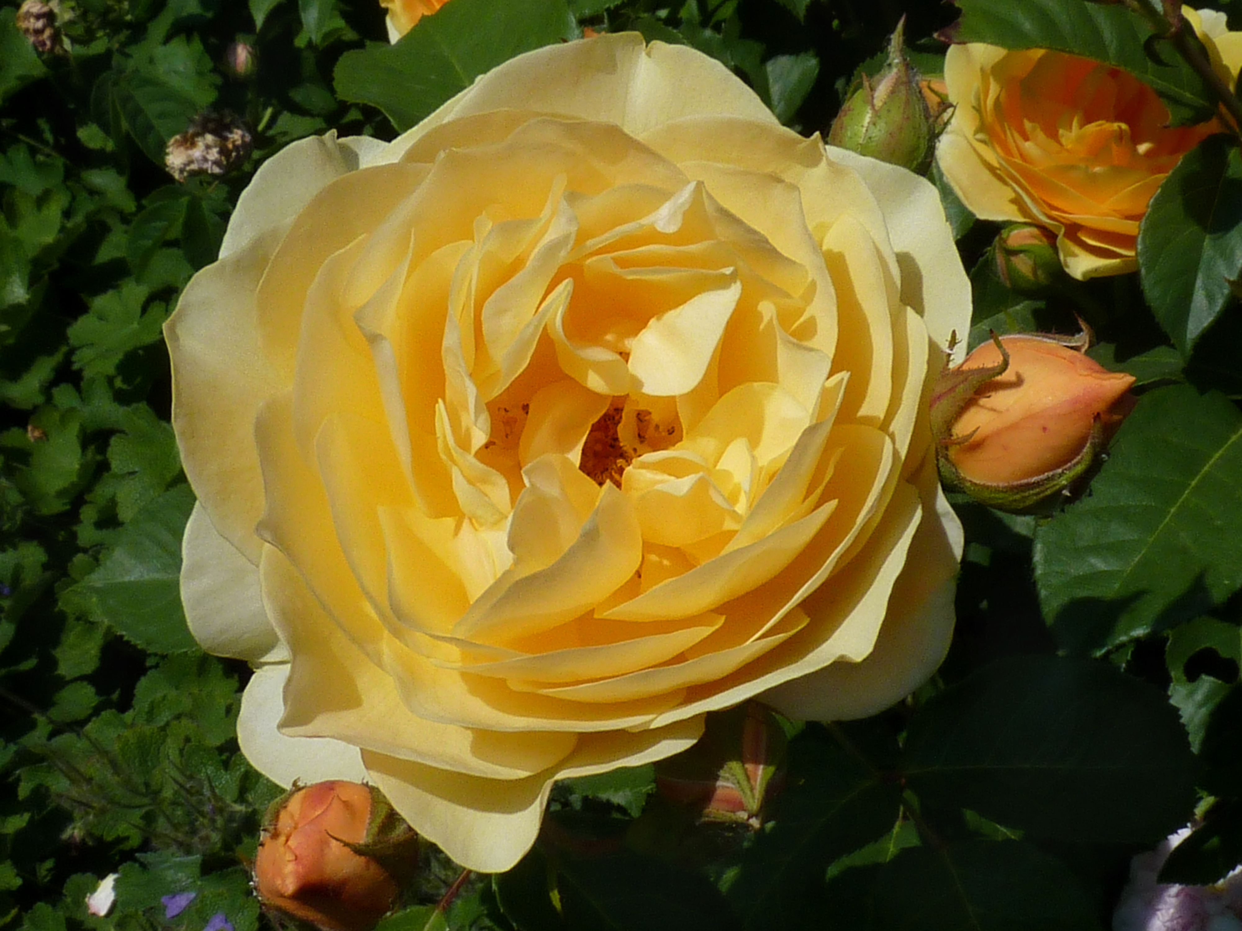 Rosa 'Graham Thomas' (David Austin, 1983), in the international rose garden of Kortrijk, Belgium.